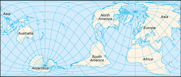 world map with a cylindrical equal-area projection, oblique case